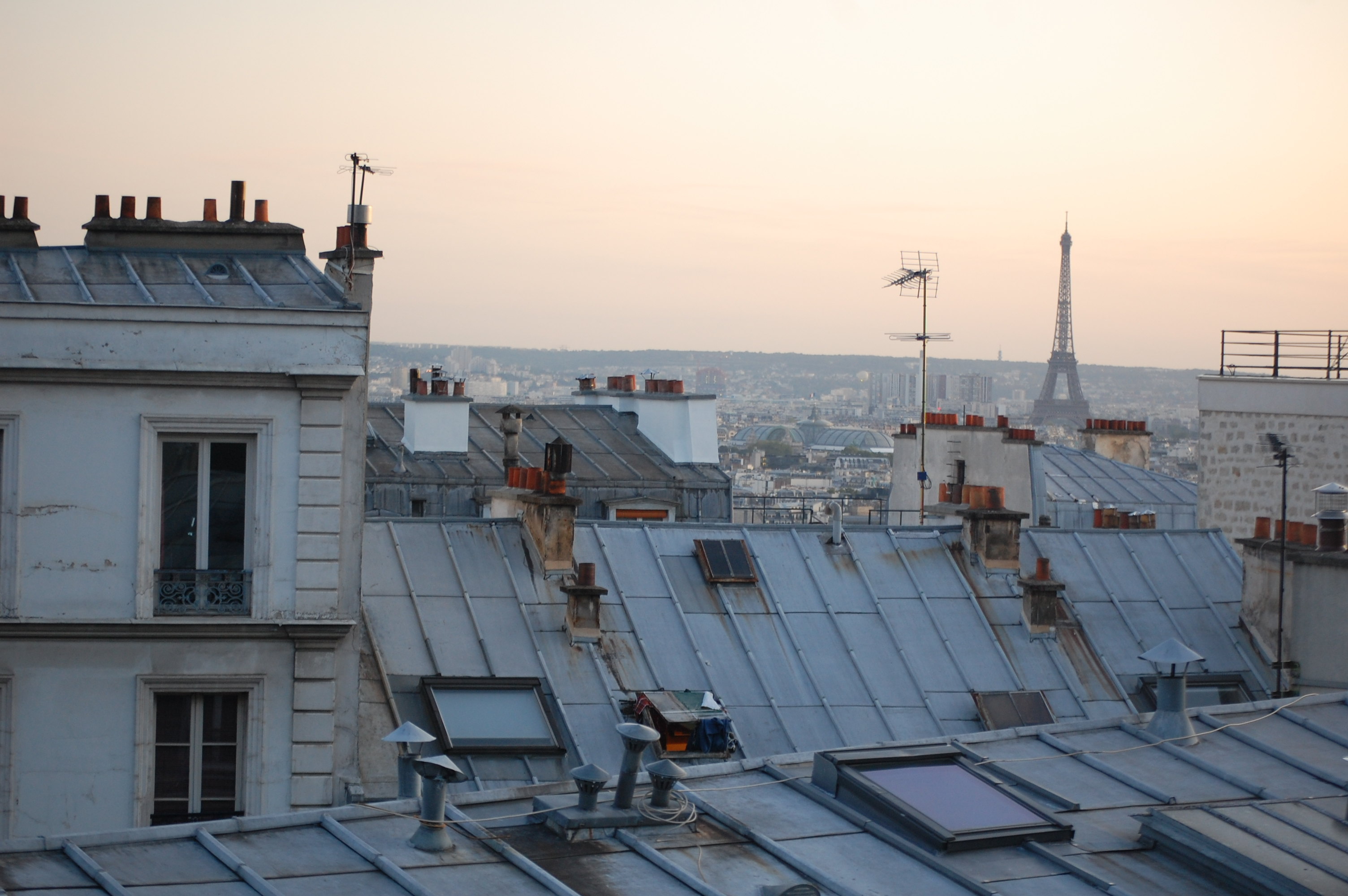 View over Eiffel Tower from Sacré-Coeur.